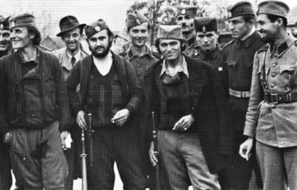 Chetniks, the Serbian State Guard and the 1st Regiment of the Serbian Volunteer Corps. Right, regimental priest, Father Ljubisav Djurić.